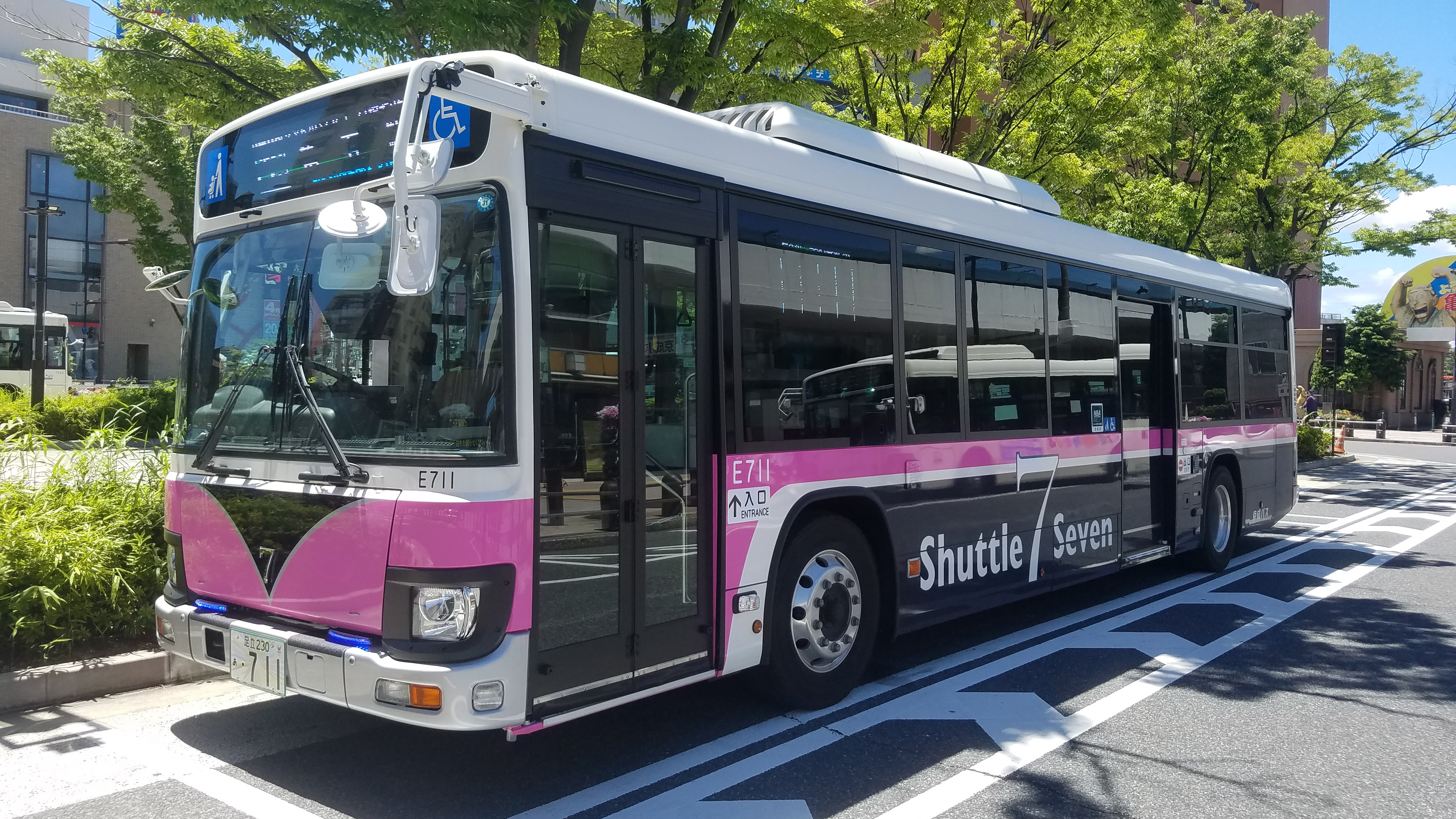 The "Shuttle Seven" operated by Keisei Bus, taken at the bus station at south entrance to Kameari Station in Katsushika city, Tokyo, Japan